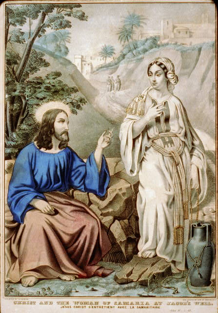 Christ and the woman of Samaria at Jacob's Well